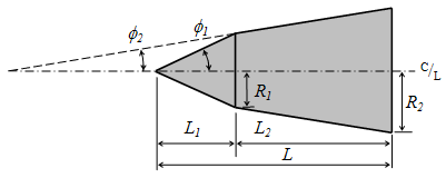 bi-conic nose cone to complement formulas